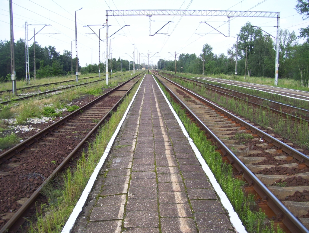 Lodz Lublinek train station.